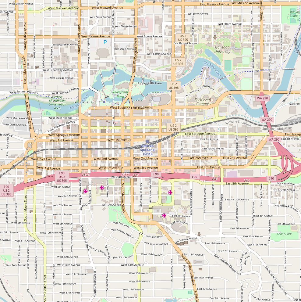 Riverfront area of Spokane. Map extends 47.6721 (N edge), 47.6386 (S edge) & -117.4398 (W edge), -117.3900 (E edge)